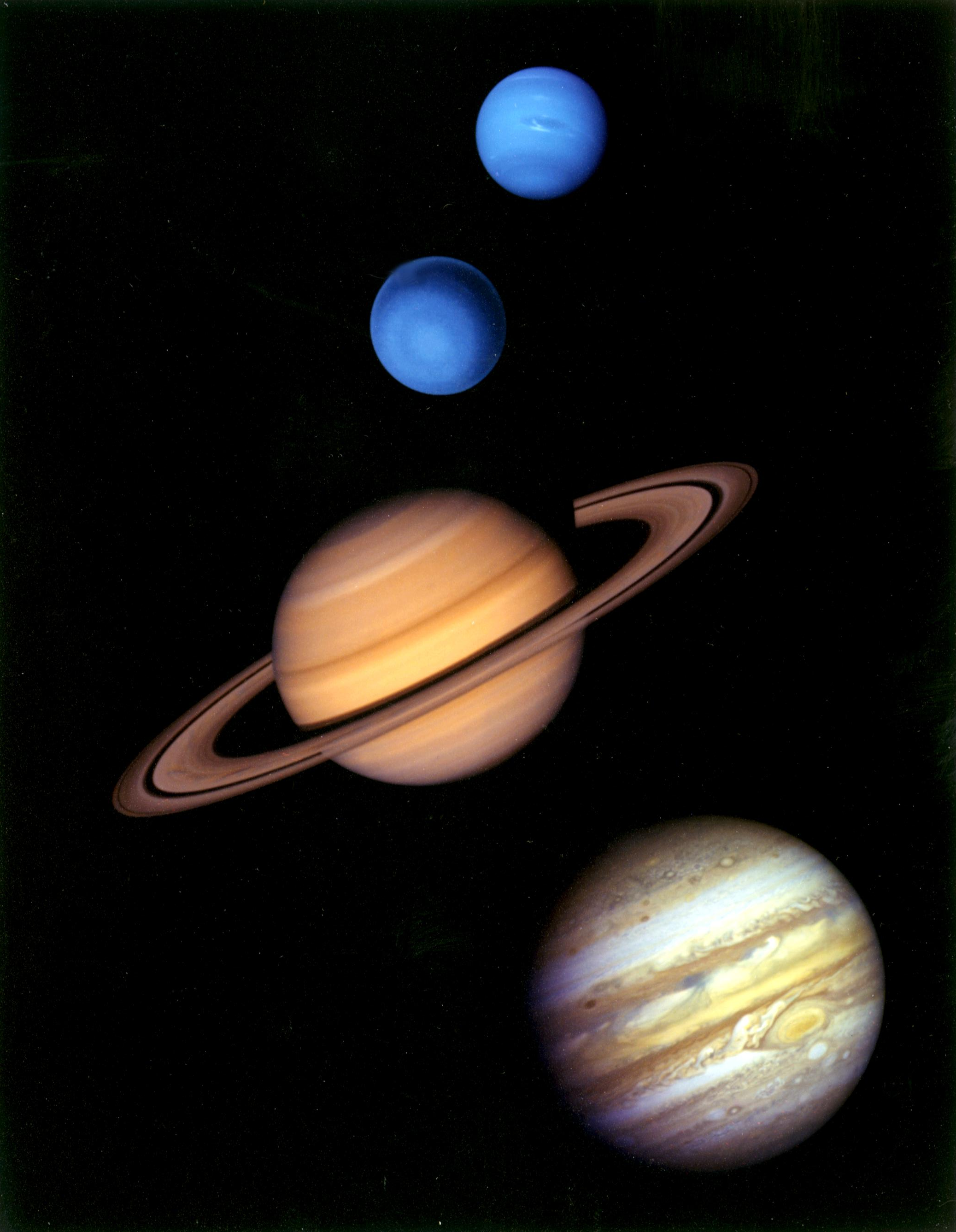 The four gas giants in the solar system, from top: Neptune, Uranus, Saturn and Jupiter